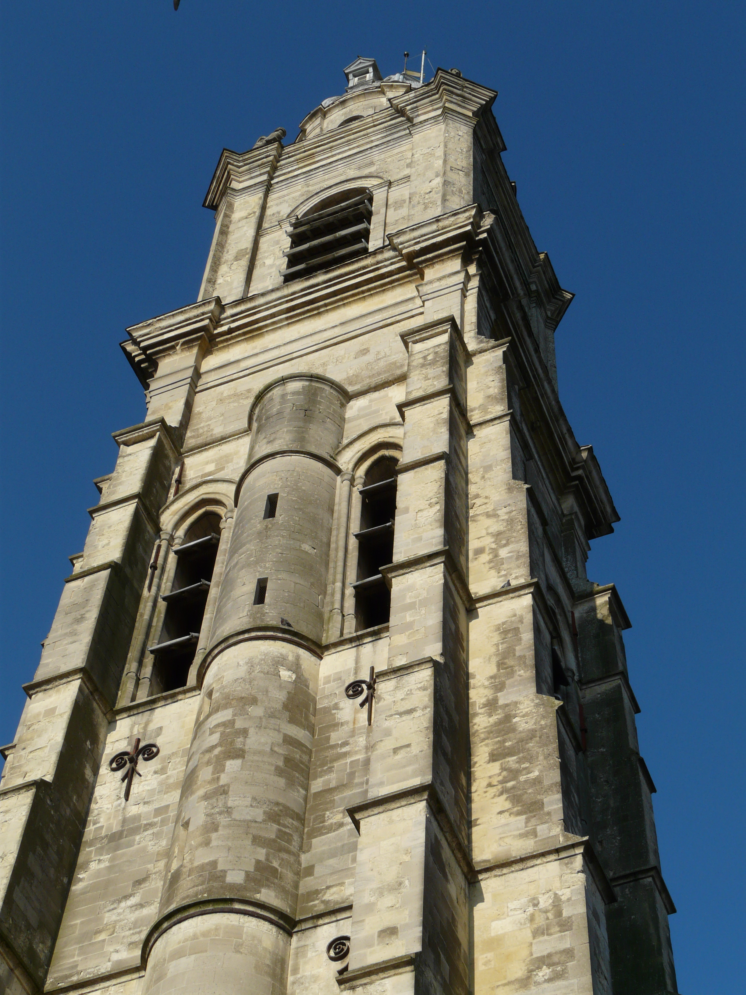 Belfry of Cambrai